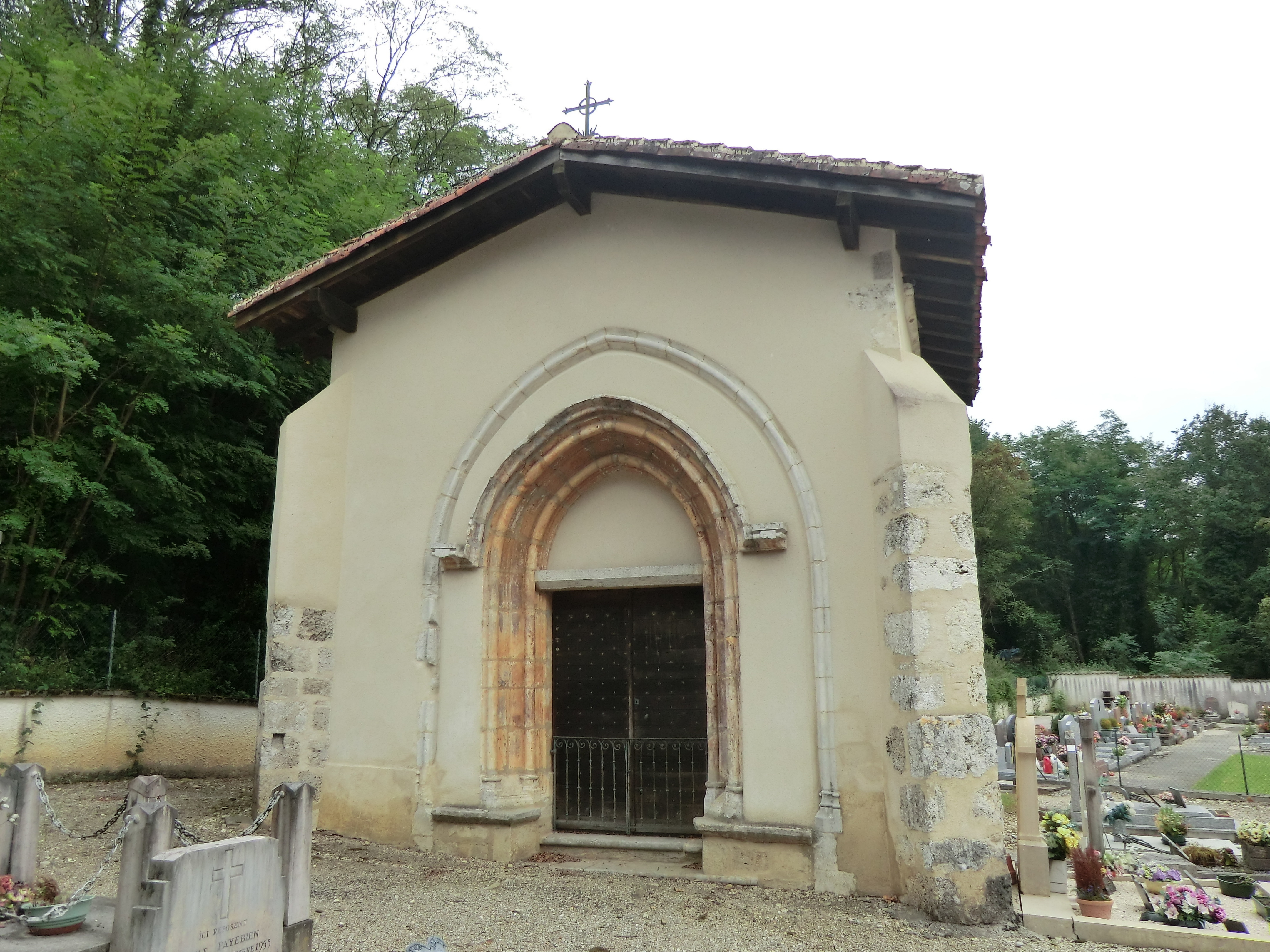 Chapelle de Sainte-Croix (Ain).